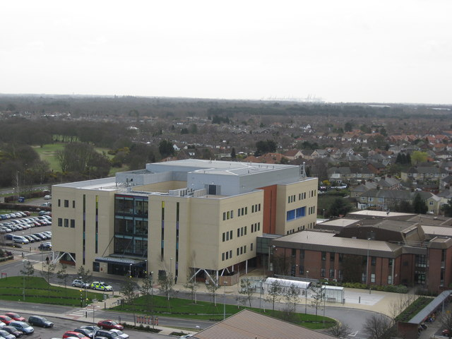 The Garrett Anderson Centre, Ipswich Hospital The Garrett Anderson centre at Ipswich Hospital opened in June 2008 houses a new emergency unit. The building is named after Elizabeth Garrett Anderson - the first female GP and a former mayor of Aldeburgh. It was officially opened on July 7 2009 by HRH The Duke of Gloucester. The photograph was taken from the top of the maternity block.